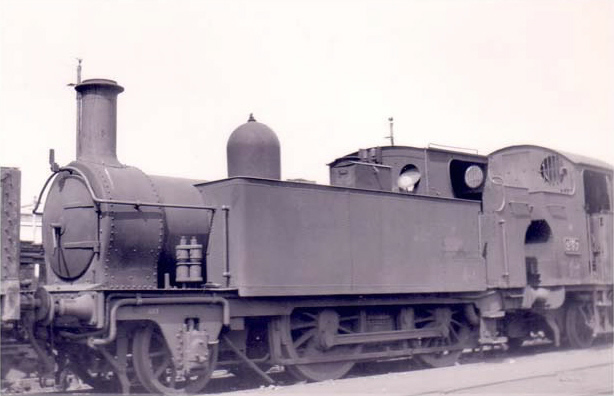 Great Western Steam Railway Tank Engine No. 3588. Photographed Swindon 1950. Dean 2-4-0T. No 3564. Built at Swindon in 1894. They were known as large "Metro" tanks. Withdrawn from service 1949.